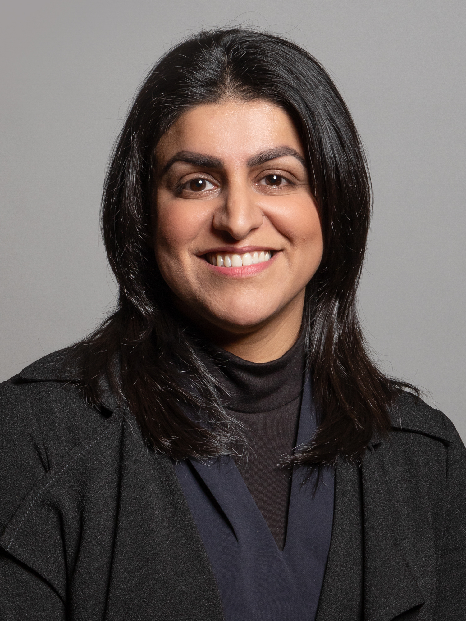 Official portrait of Shabana Mahmood MP 3×4 portrait of Shabana Mahmood